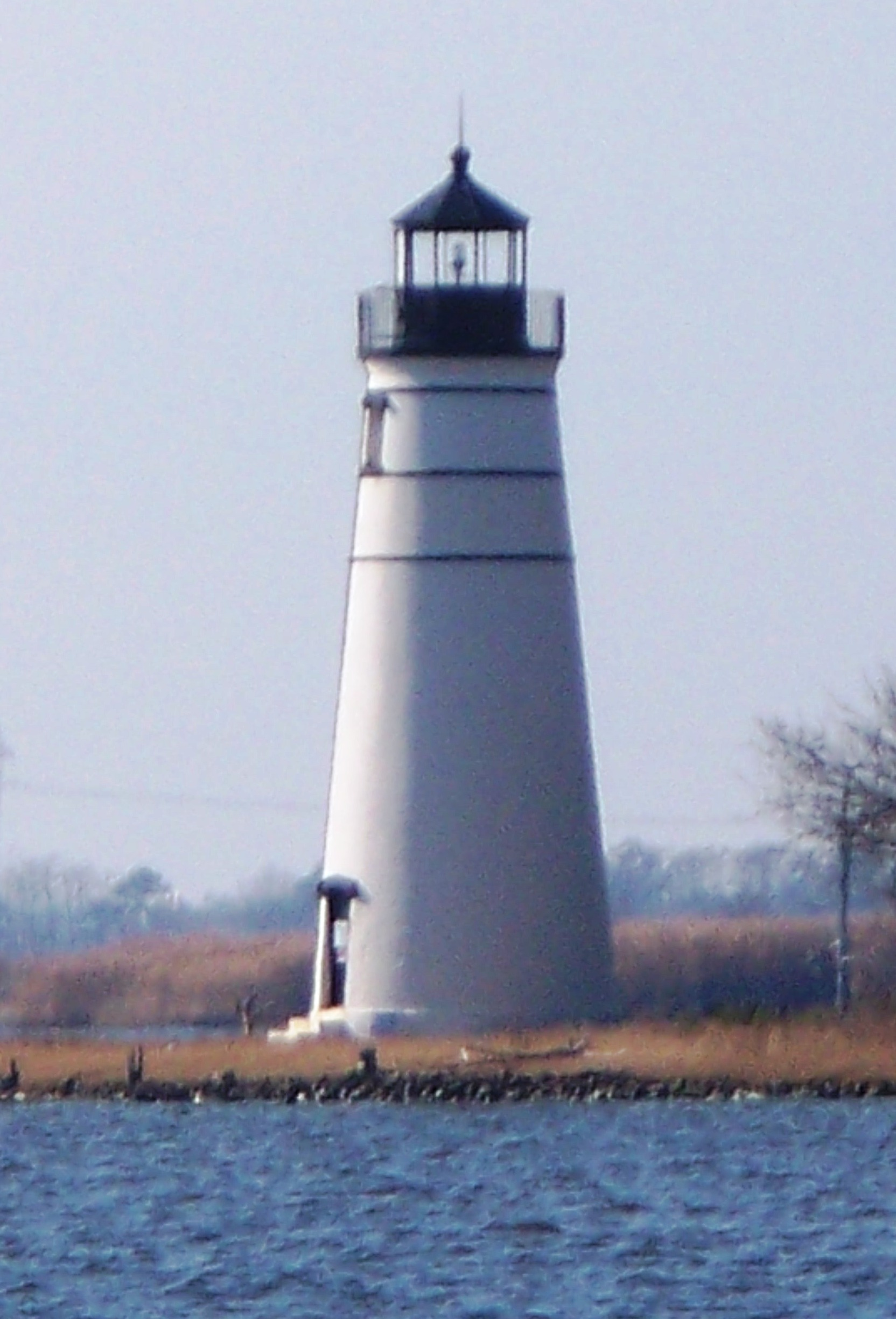 Madisonville lighthouse viewed from the east (end of LA 1077)